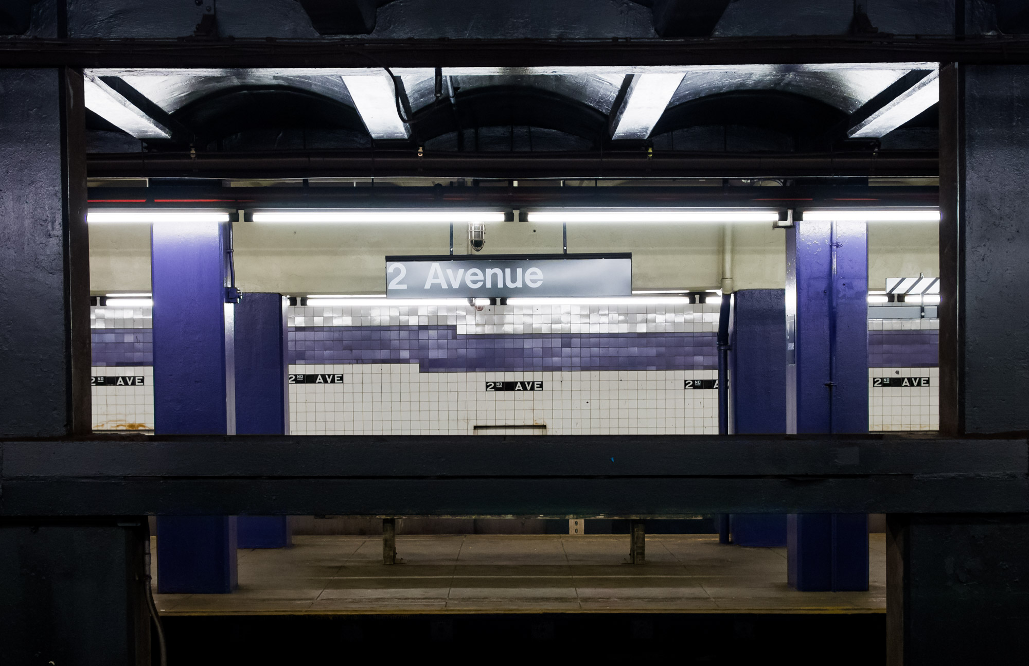 2nd avenue subway station-2